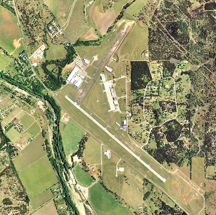 USGS digital orthophoto of Kerrville Municipal Airport in Texas